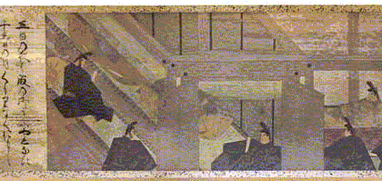 Part of the Murasaki Shikibu Diary Emaki. The image shows the painting corresponding to the first scene (第1段絵) and part of the text corresponding to the second scene (第2段詞) of the Hachisuka(蜂須賀家本).